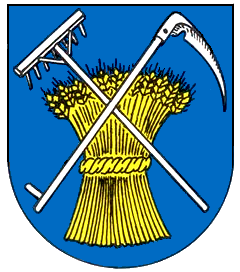 Coat of arms of Hottingen in Rickenbach (Hotzenwald)